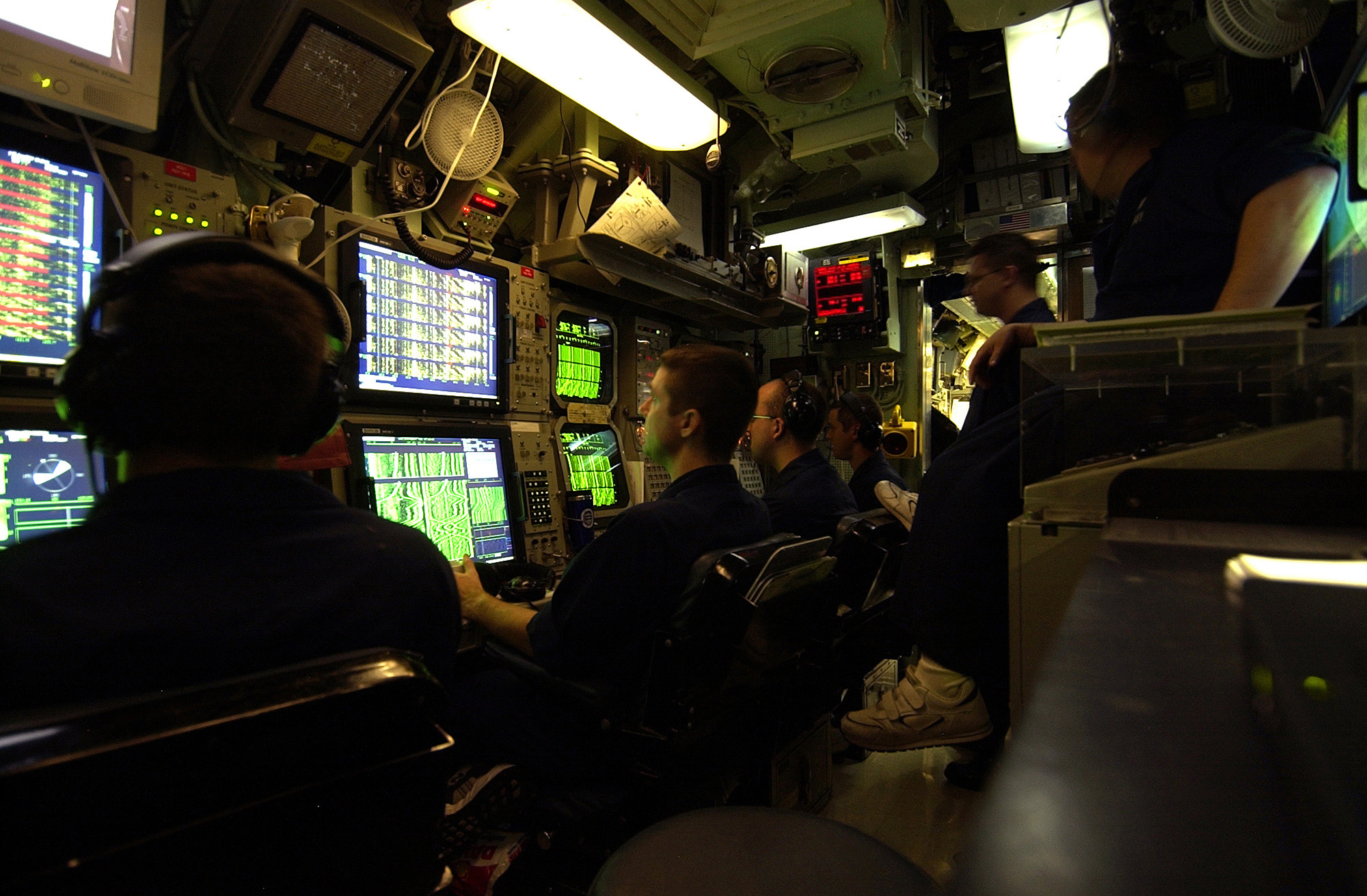 Sonar technicians aboard the nuclear submarine USS Toledo (SSN 769) monitor the sonar screens during their watch while underway in the Persian Gulf on Sept. 1, 2004. Underway sonar is the eyes and ears of the submarine. A submarine uses sonar in developing ranges and building contact solutions. Sonar also continuously monitors and tracks changes in the ocean's environment such as biologic activity, ambient noise levels and shipping levels. Toledo is part of the USS John F. Kennedy (CV 67) Strike Group and is on a routine six-month deployment. DoD photo by Petty Officer 1st class David C. Lloyd, U.S. Navy. (Released) 040901-N-1348L-002